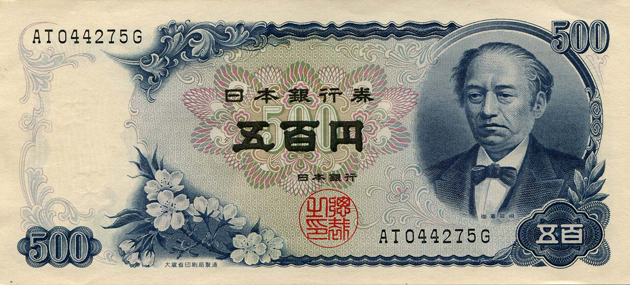 Series C 500 Yen Bank of Japan note. Portrait: Iwakura Tomomi. First issued in 1969. Issue suspended in 1994. Legal tender. 159mm x 72mm.